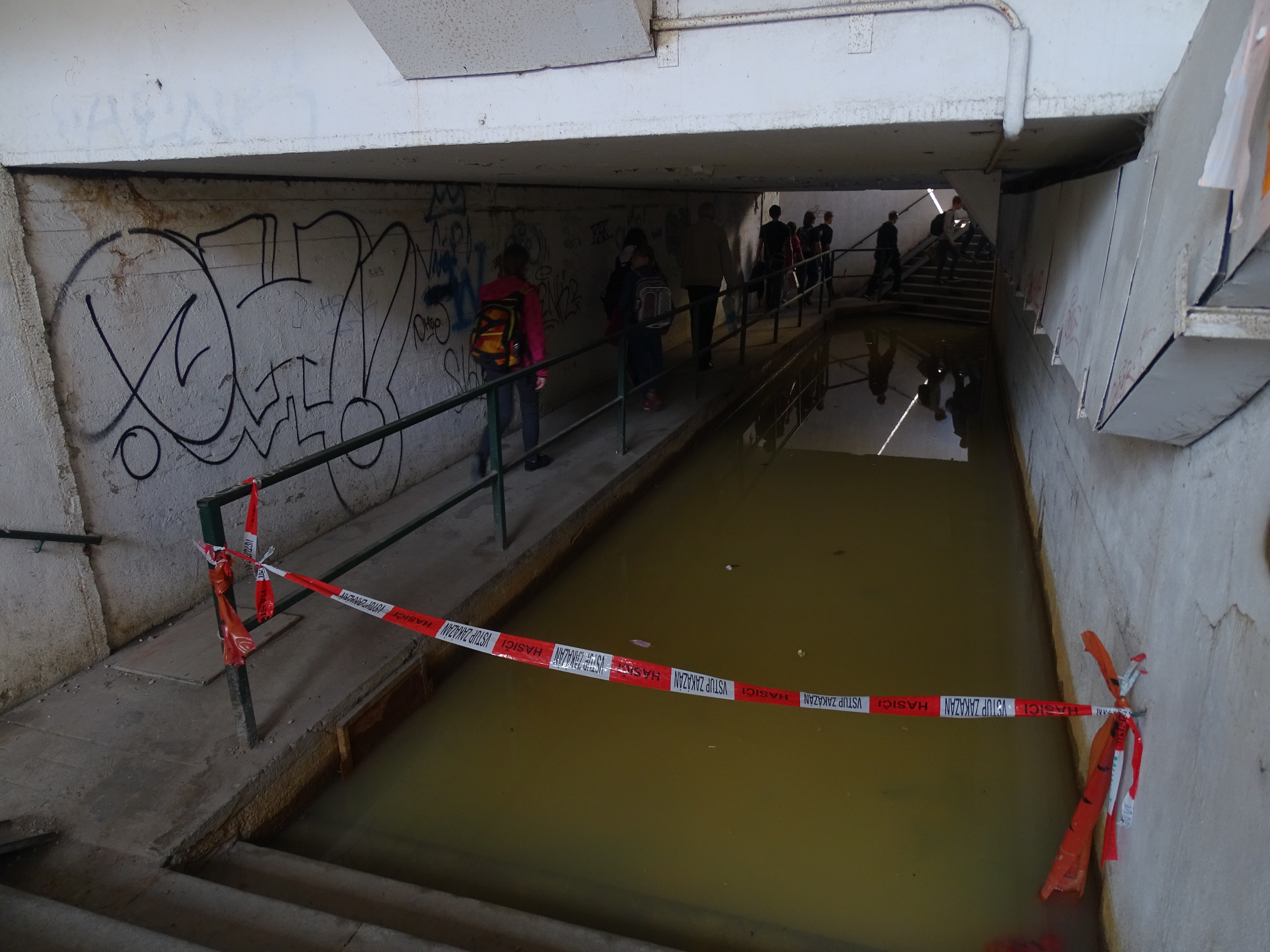 Prague-Klánovice, Czech Republic. Train stop Praha-Klánovice, flooded old underpass.